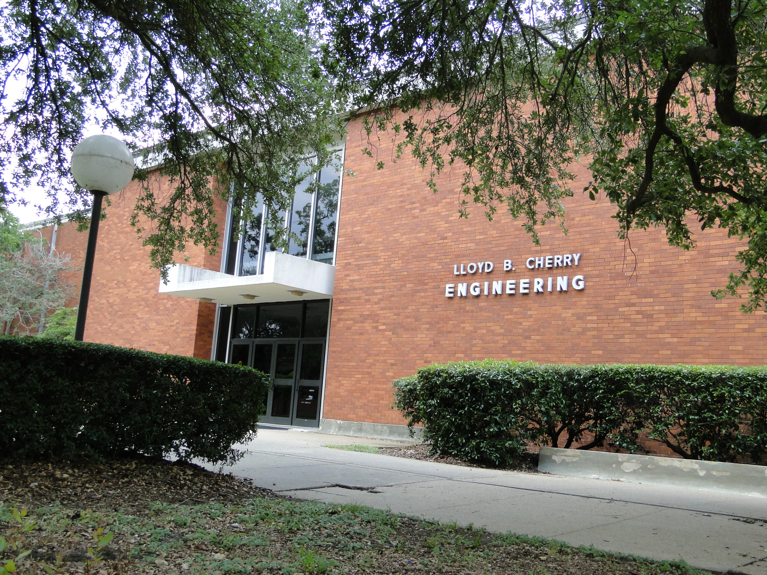 Entrance to the Loyd. B. Cherry Engineering building at Lamar University